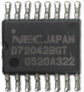 Close up image of the µPD72042B IEBus Protocol Control IC.